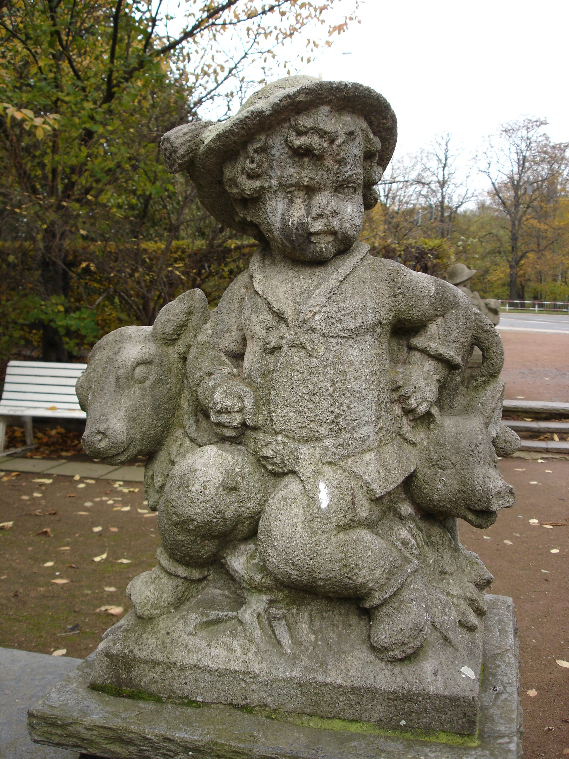 statue in the Dresden Rosengarten (near Albertbrücke)